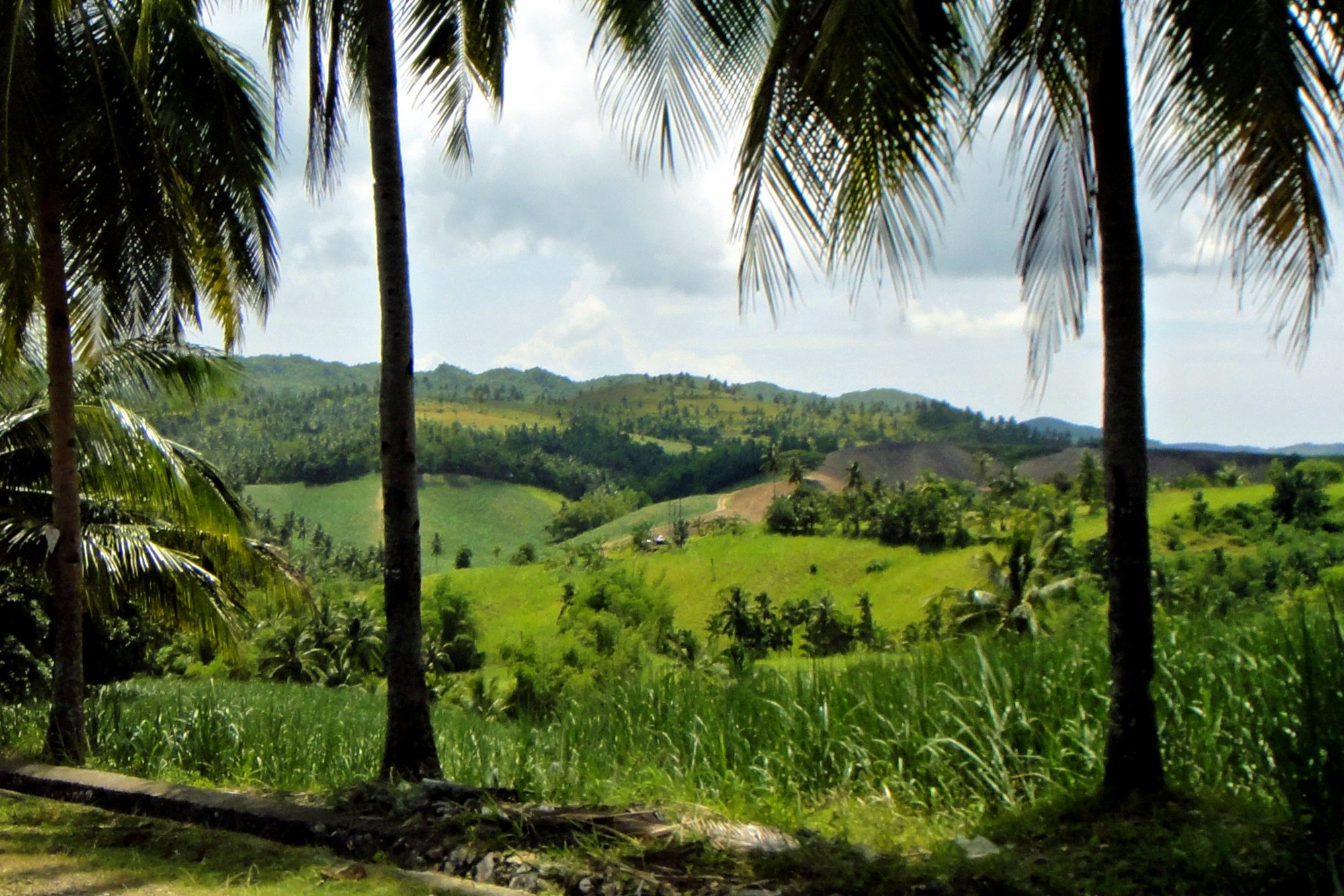 Tropical forest and farmland near Sogod, Central Cebu, Philippines